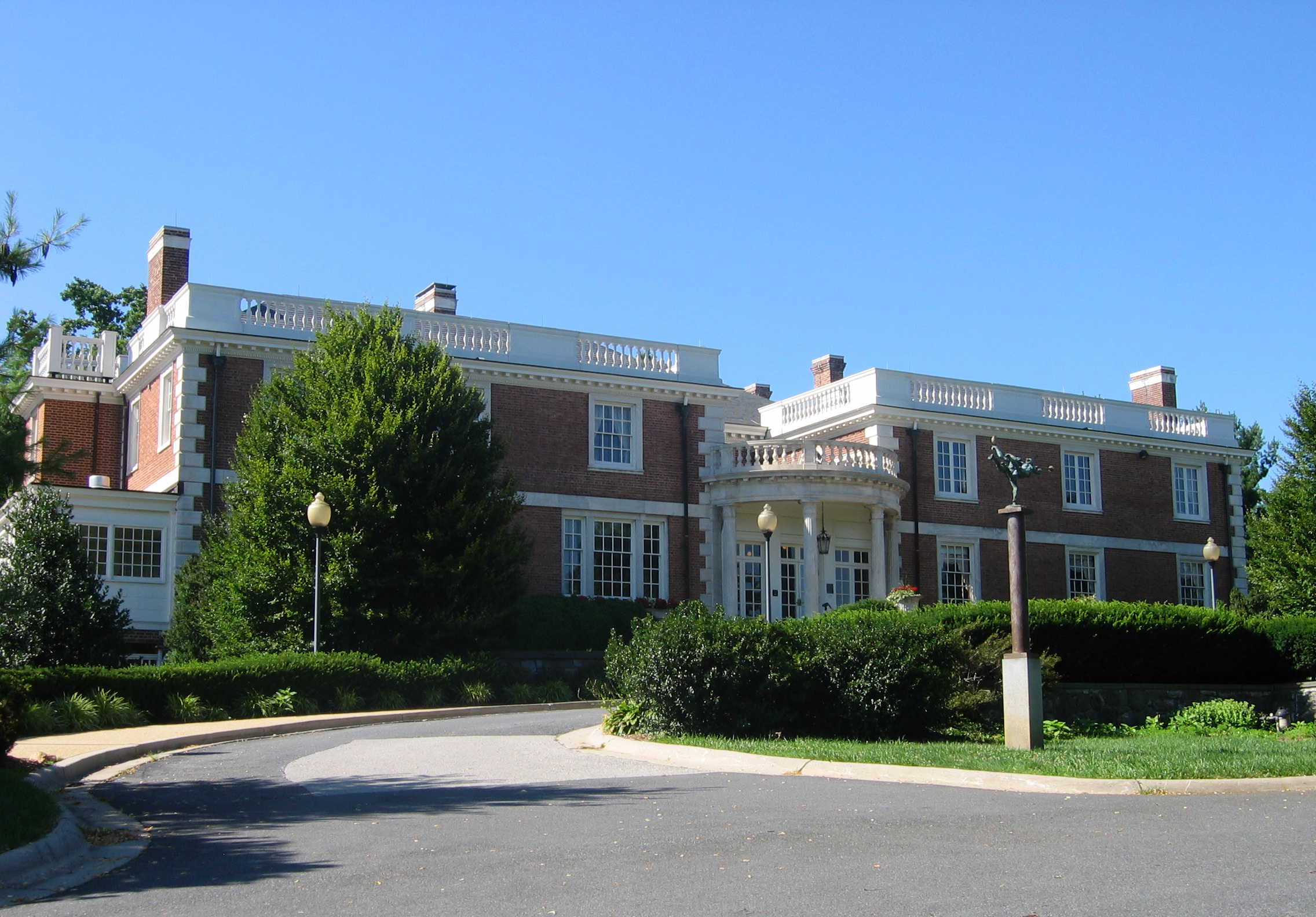 Strathmore Mansion in North Bethesda, Maryland.